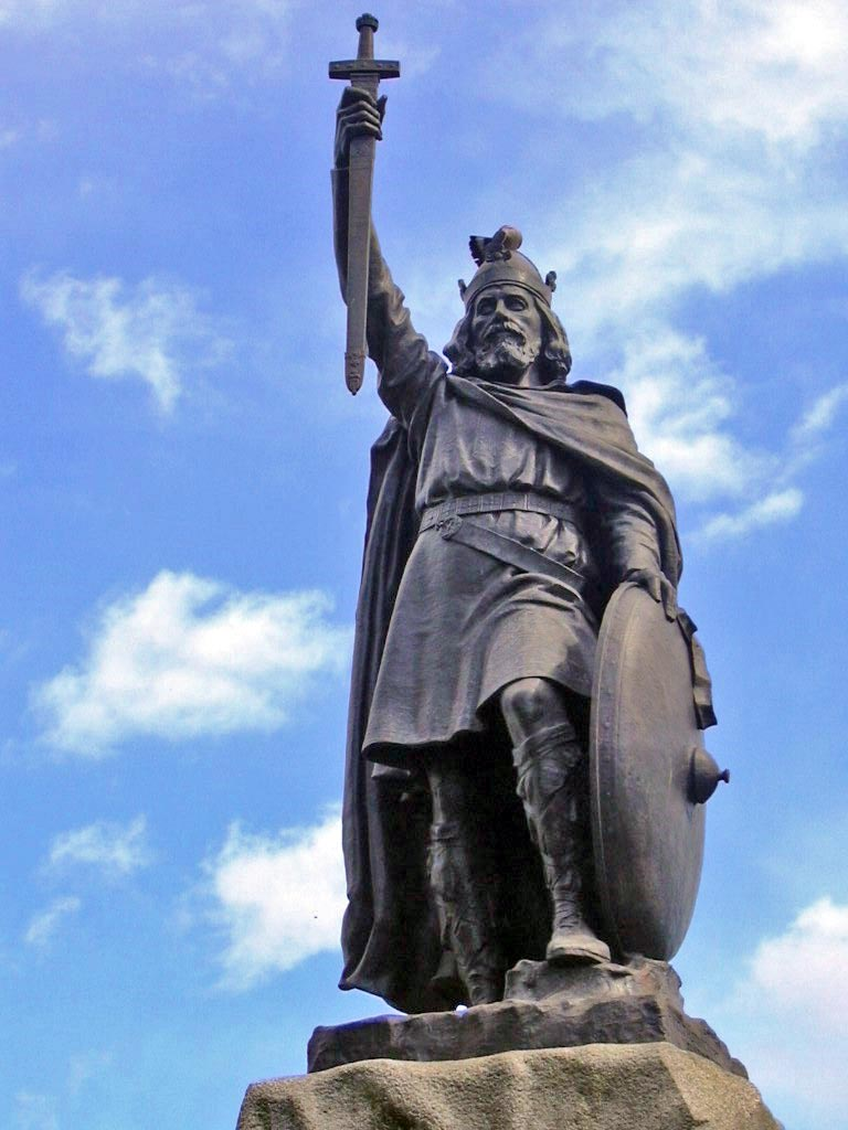 This picture shows Alfred the Great's statue at Winchester. Hamo Thornycroft's bronze statue erected in 1899.